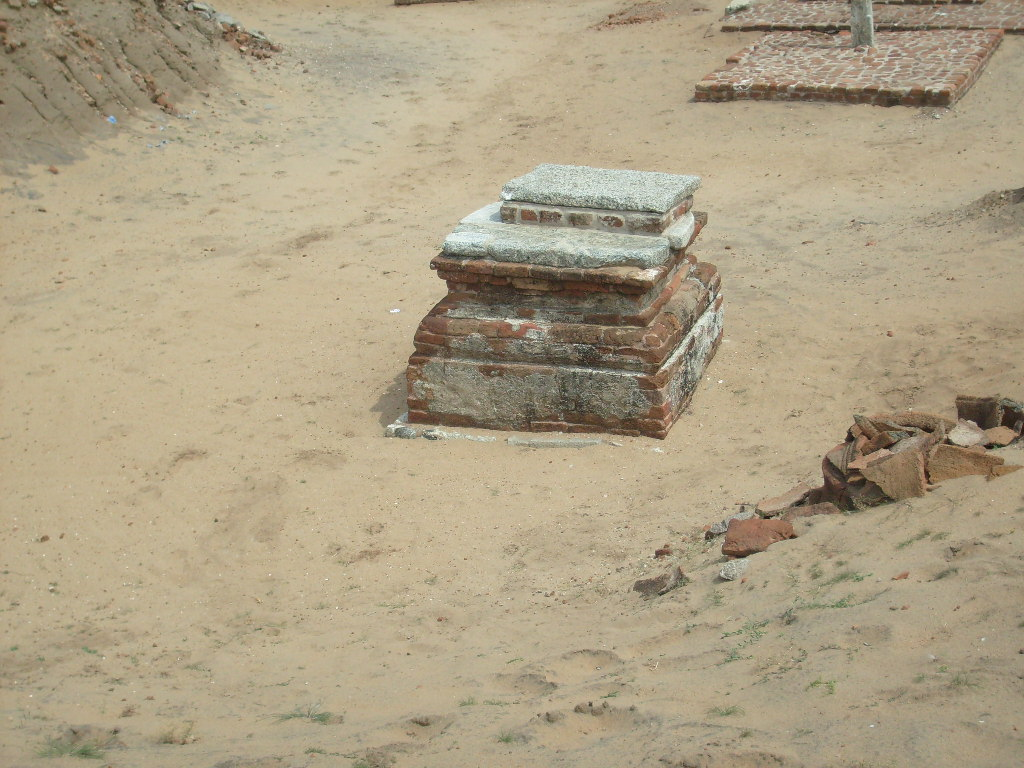 Potsherds and granite slabs unearthed at the site of the Subrahmanya Temple, Saluvankuppam